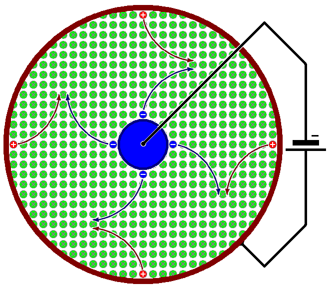 Magnetic deflection of ions in a circular electrolytic cell as origin of a rotating electrolyte